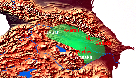 The terrain and hydrological features are from and the map made using ArcGIS and Inkscape. The information to make the map came from the Wikipedia article about the Udi language, which cites sources for the bounds of the Old Udi sprachbund.